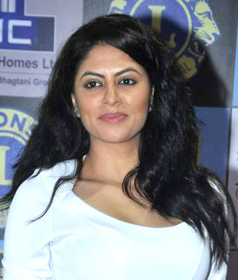 Kavita Kaushik at the 20th Lions Gold Awards